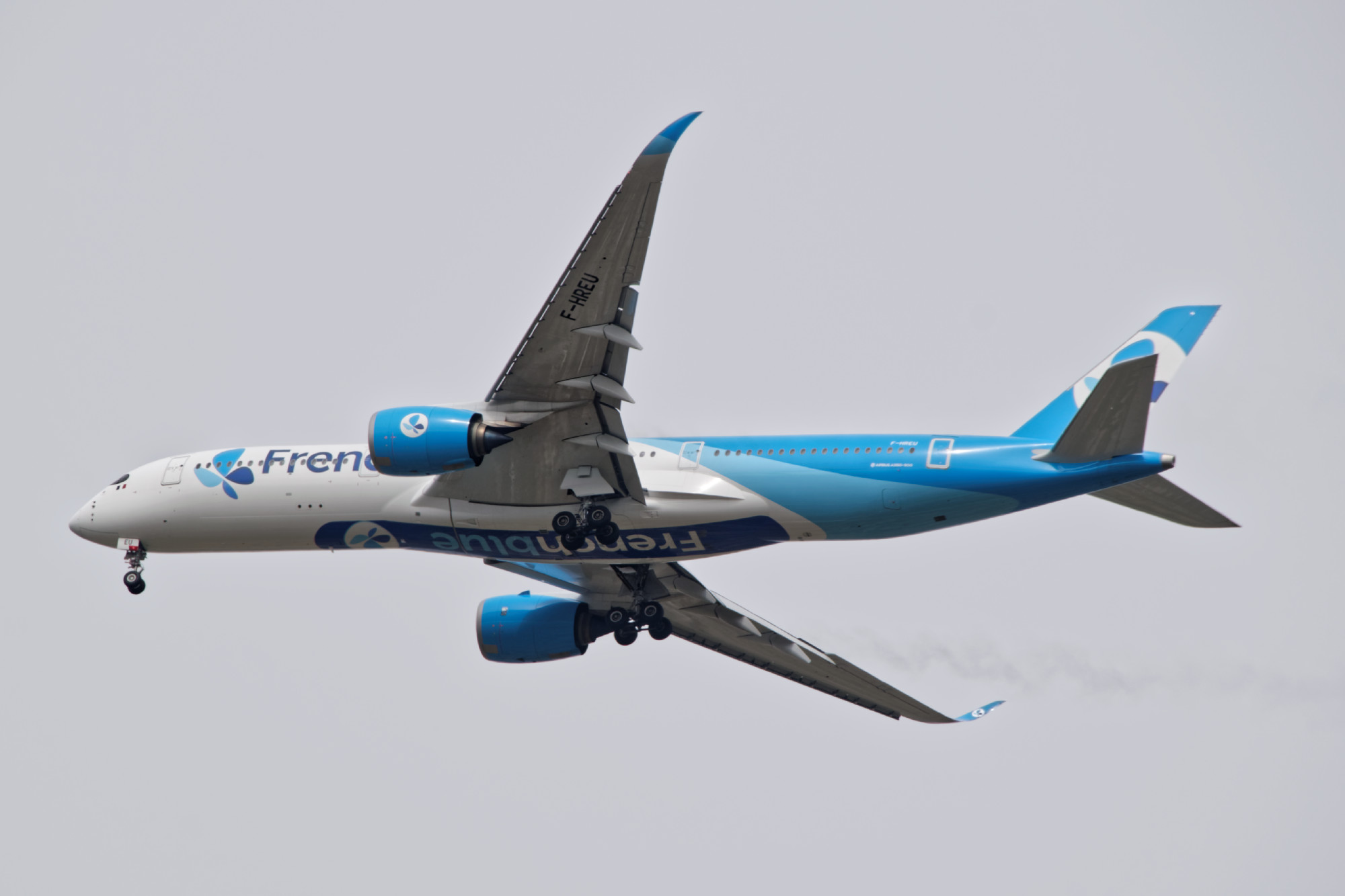 French bee / F-HREU / Airbus A350